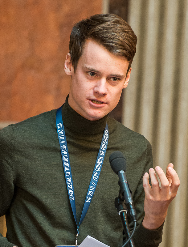 Vice president Tore Storehaug during YEPPs council of presidents in Vienna